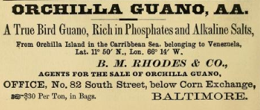 An advertisement for Orchilla Guano, sold by B.M. Rhodes & Co. of Baltimore, Maryland. The ad appears in "The Monumental city, its past history and present resources," by Howard, George W. (George Washington), 1814-1888. The text was published in Baltimore in 1873.